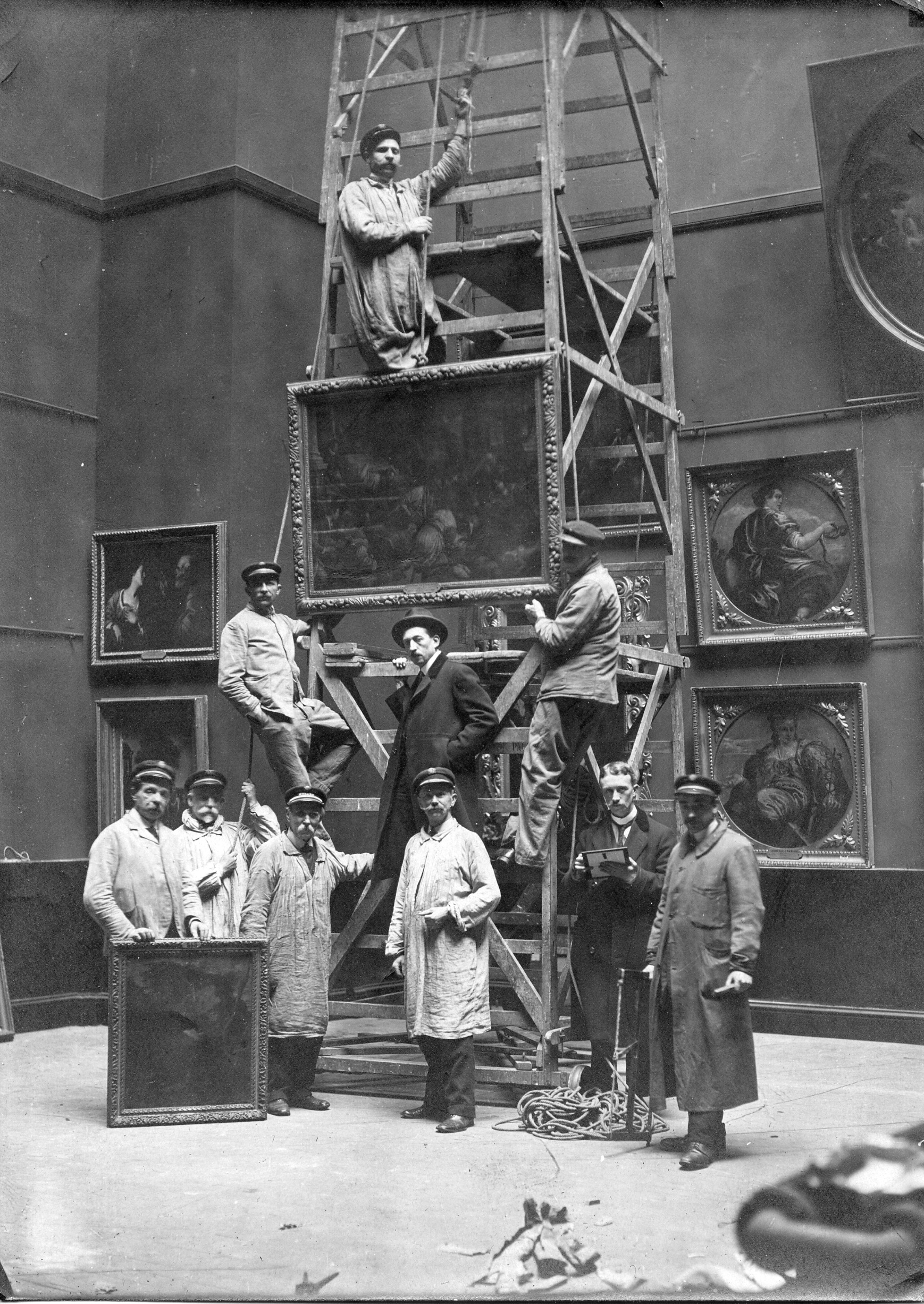 Reconstruction of the gallery dedicated to Spanish and Italian paintings in the Palace of Fine Arts in Lille (Museum), two years after the First World War . In the center of the picture: Émile Théodore (museum curator from 1912 to 1937).